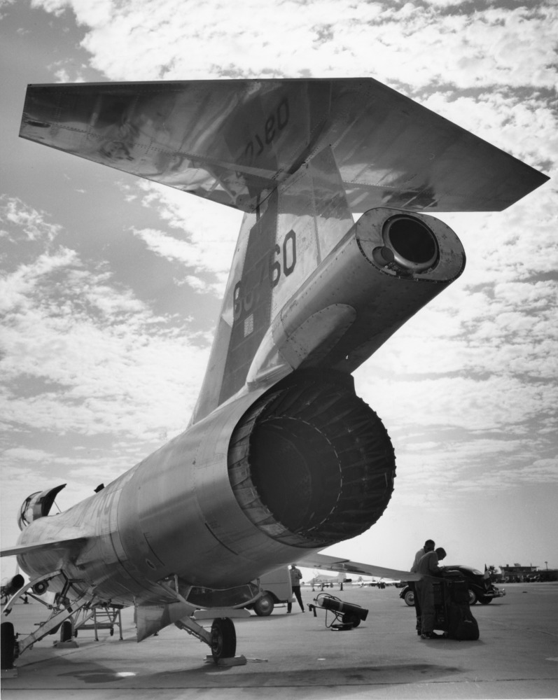 PictionID:43637184 - Title:Lockheed NF-104A 56-0760 [USAF via RJF] - Catalog:17_000340 - Filename:17_000340.tif - ---------Image from the René Francillon Photo Archive. Having had his interest in aviation sparked by being at the receiving end of B-24s bombing occupied France when he was 7-yr old, René Francillon turned aviation into both his vocation and avocation. Most of his professional career was in the United States, working for major aircraft manufacturers and airport planning/design companies. All along, he kept developing a second career as an aviation historian, an activity that led him to author more than 50 books and 400 articles published in the United States, the United Kingdom, France, and elsewhere. Far from “hanging on his spurs,” he plans to remain active as an author well into his eighties.-------PLEASE TAG this image with any information you know about it, so that we can permanently store this data with the original image file in our Digital Asset Management System.--------------SOURCE INSTITUTION: San Diego Air and Space Museum